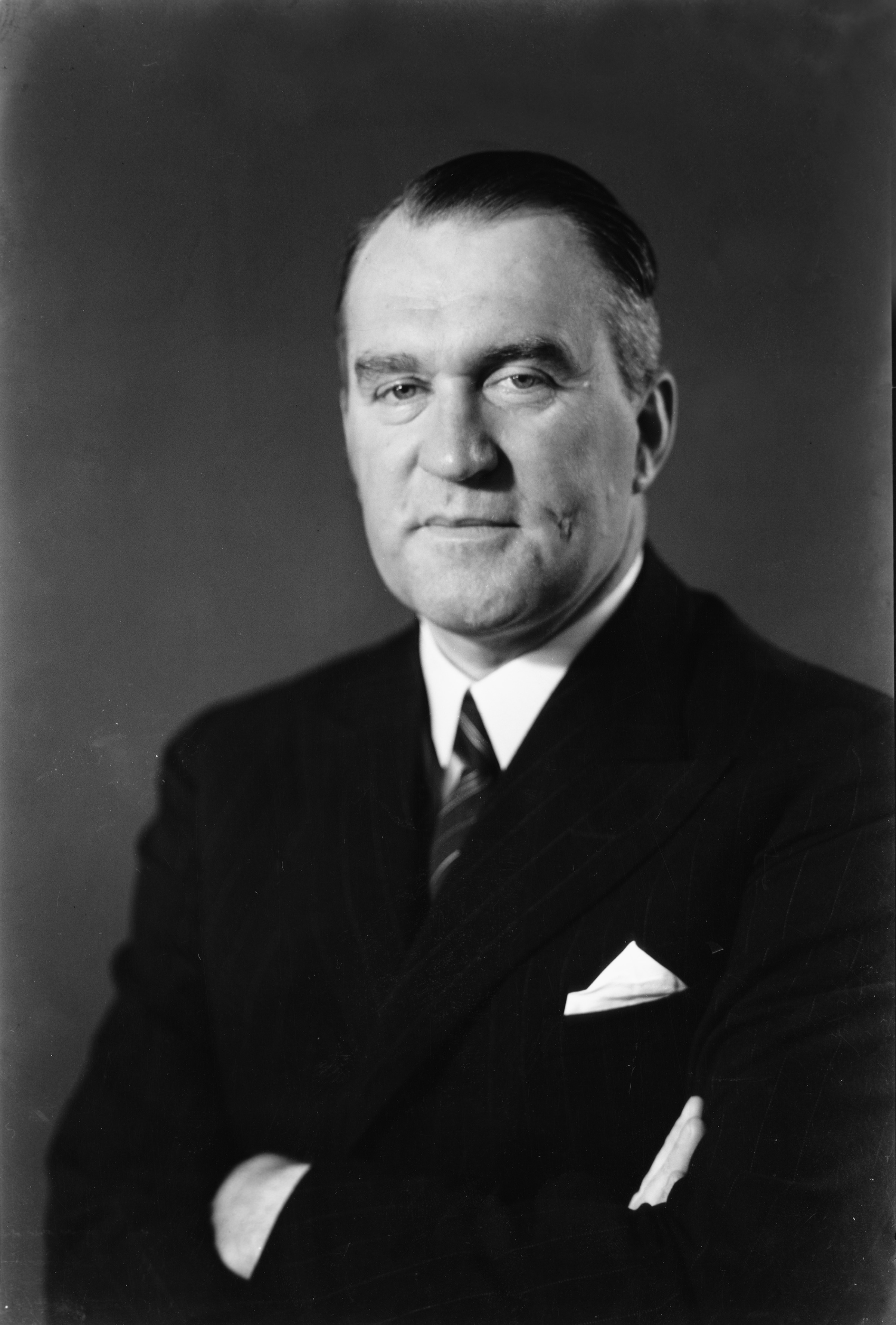 Photograph of the Finnish politician and mayor Erik von Frenckell (1887–1977).